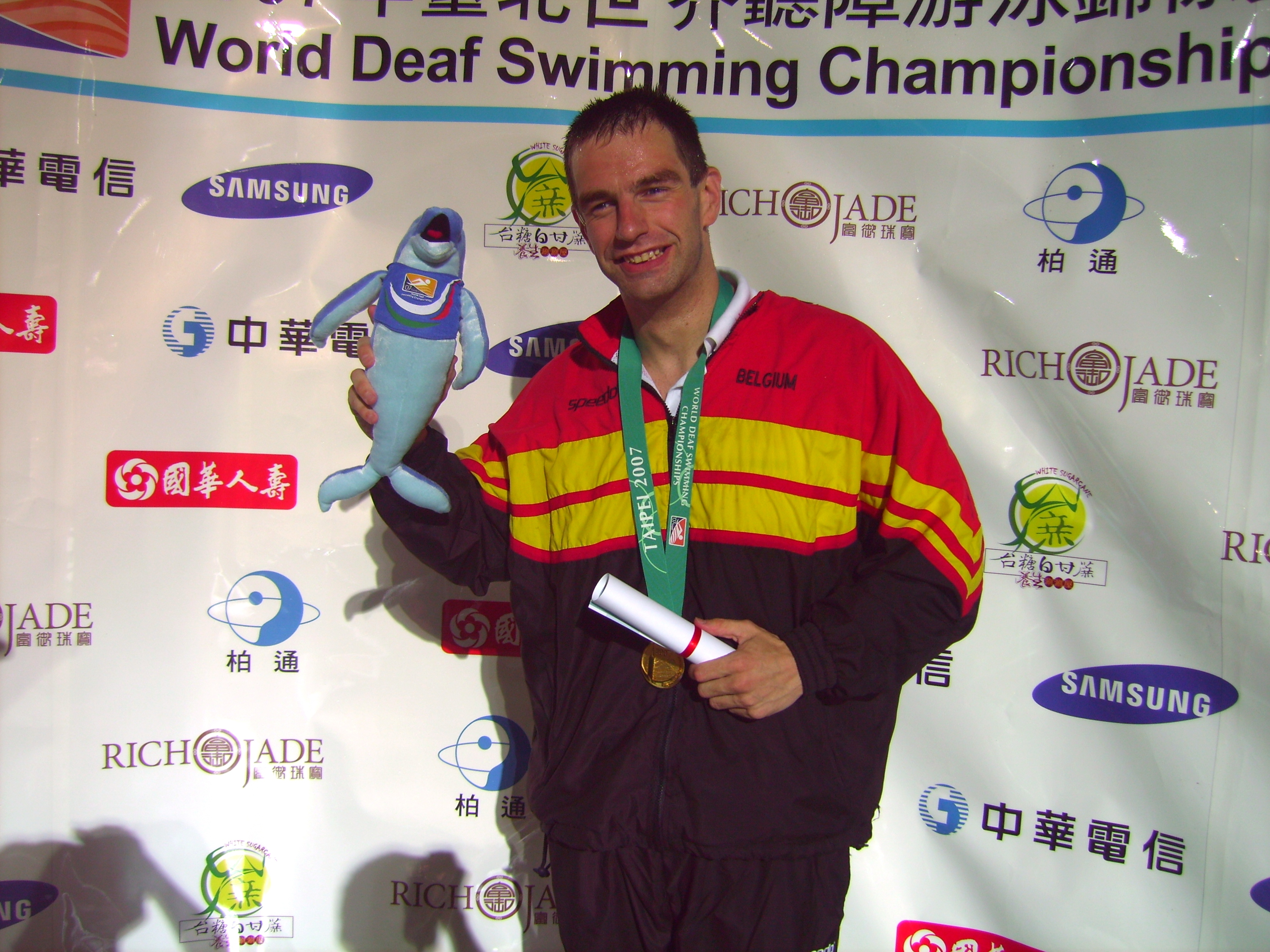 2007 World Deaf Swimming Championships: Gold Medalist of Men 100m Breaststroke - Koen Adriaenssens.